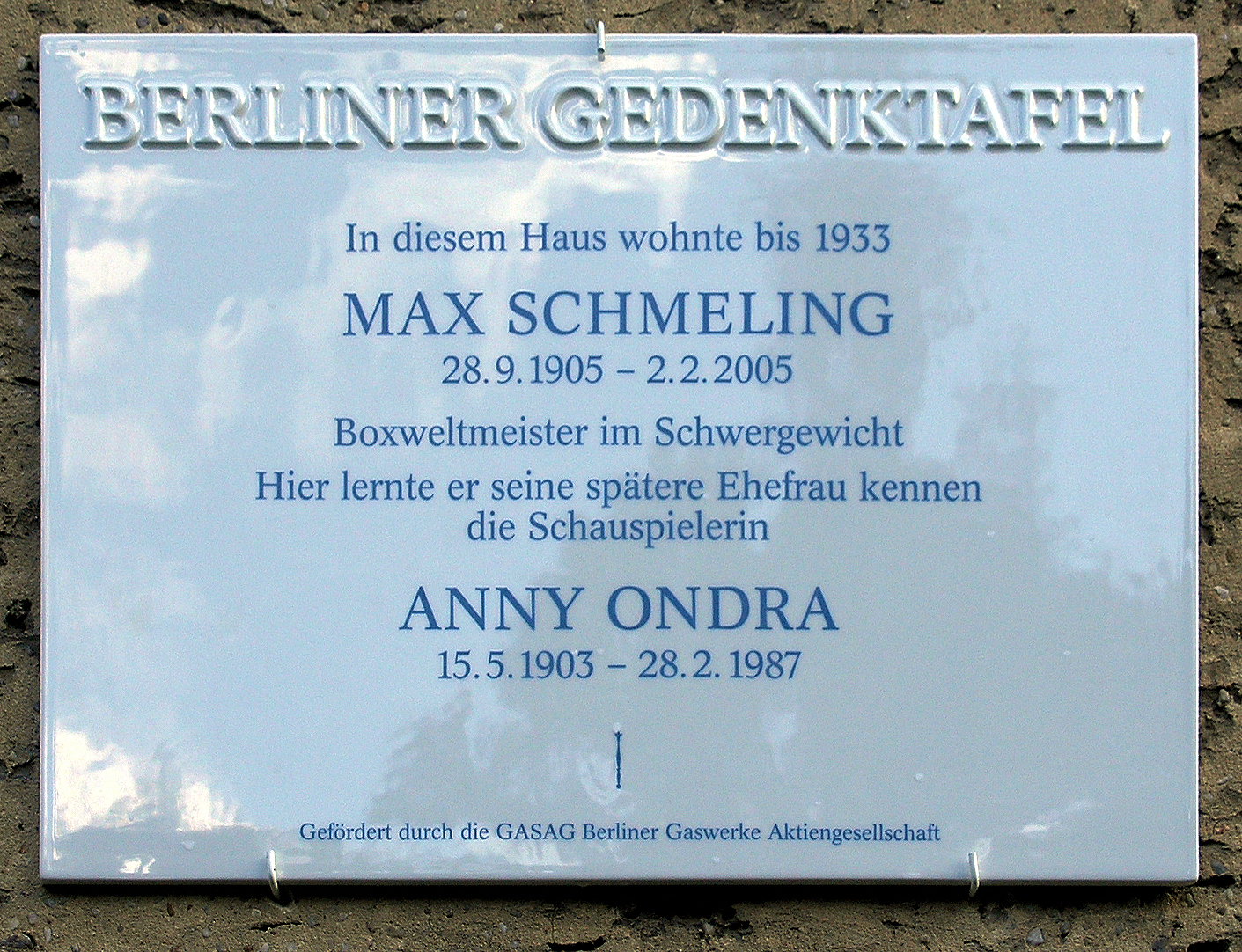 Berlin memorial plaque, Max Schmeling and Anny Ondra, Brixplatz 9, Berlin-Westend, Germany Koordinate:52°31′5″N 13°15′20″E / 52.51806°N 13.25556°E